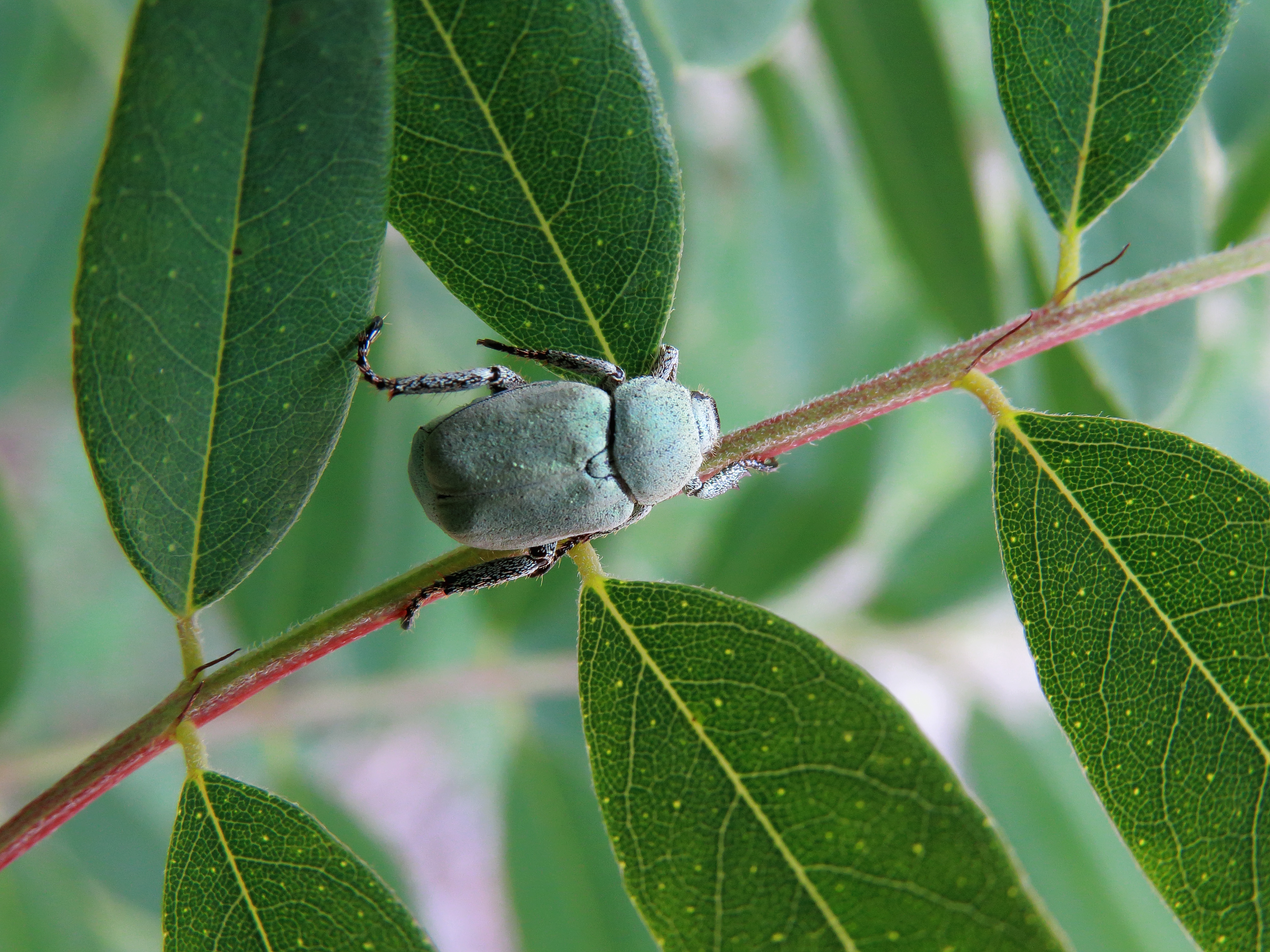 Hoplia parvula. Trukhaniv island, Kiev, Ukraine